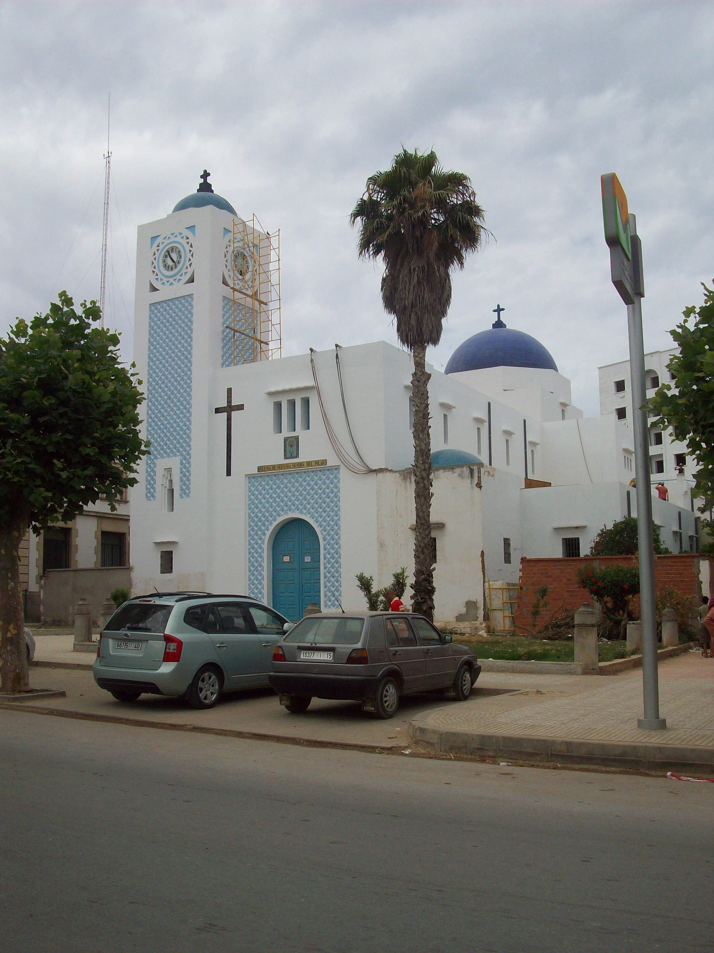 Iglesia del Pilar, Larache, Morocco